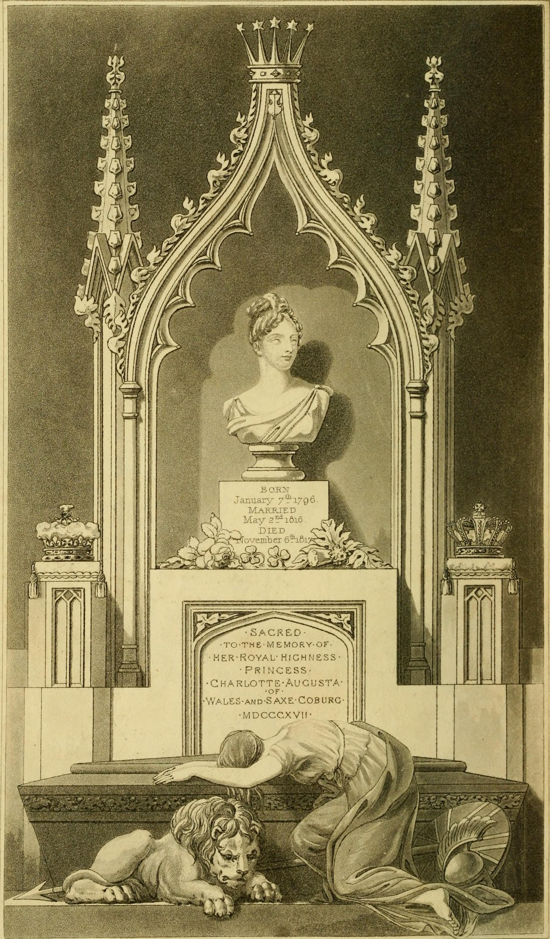 Title: The Repository of arts, literature, commerce, manufactures, fashions and politics Year: 1809 (1800s) Authors: Ackermann, Rudolph, 1764-1834 Subjects: Fashion Art, Decorative Publisher: London : Published by R. Ackermann ... Sherwood & Co. and Walker & Co. ... and Simpkin & Marshall ... Text Appearing Before Image: ' Text Appearing After Image: rfti^tiftJIharfUaMMiaj THE 3&epo0ttorp OP ARTS, LITERATURE, FASHIONS, Manufactures^ §c. THE SECOND SERIES. Vol. IV. December 1, 1817. N° XXIV M E M O I It S OF THE ILiU, Beat!), anb Jfruuval OF Her Royal Highness the Princess CHARLOTTE AUGUSTA OF WALES. Never since the commencementof our labours have we taken upthe pen with feelings so acute, asto perform the task of rearing ahumble monument to her who, solately the object of the love, admi-ration, and hope of a loyal people,is now a source of agonizing sor-row, keen disappointment, and bit-ter regret. If, however, as we aretaught by the divine founder ofour religion, there is a special pro-vidence in the fall of a sparrow,we cannot but believe, that ourlovely Princess has been snatchedfrom us by an immediate dispen-sation of that Almighty Power whoguides the affairs of the world lohisown good purposes; and the wis-dom-of whose decrees, though in-scrutable to our limited compre-hensions, it would be not less fool-ish than impiou